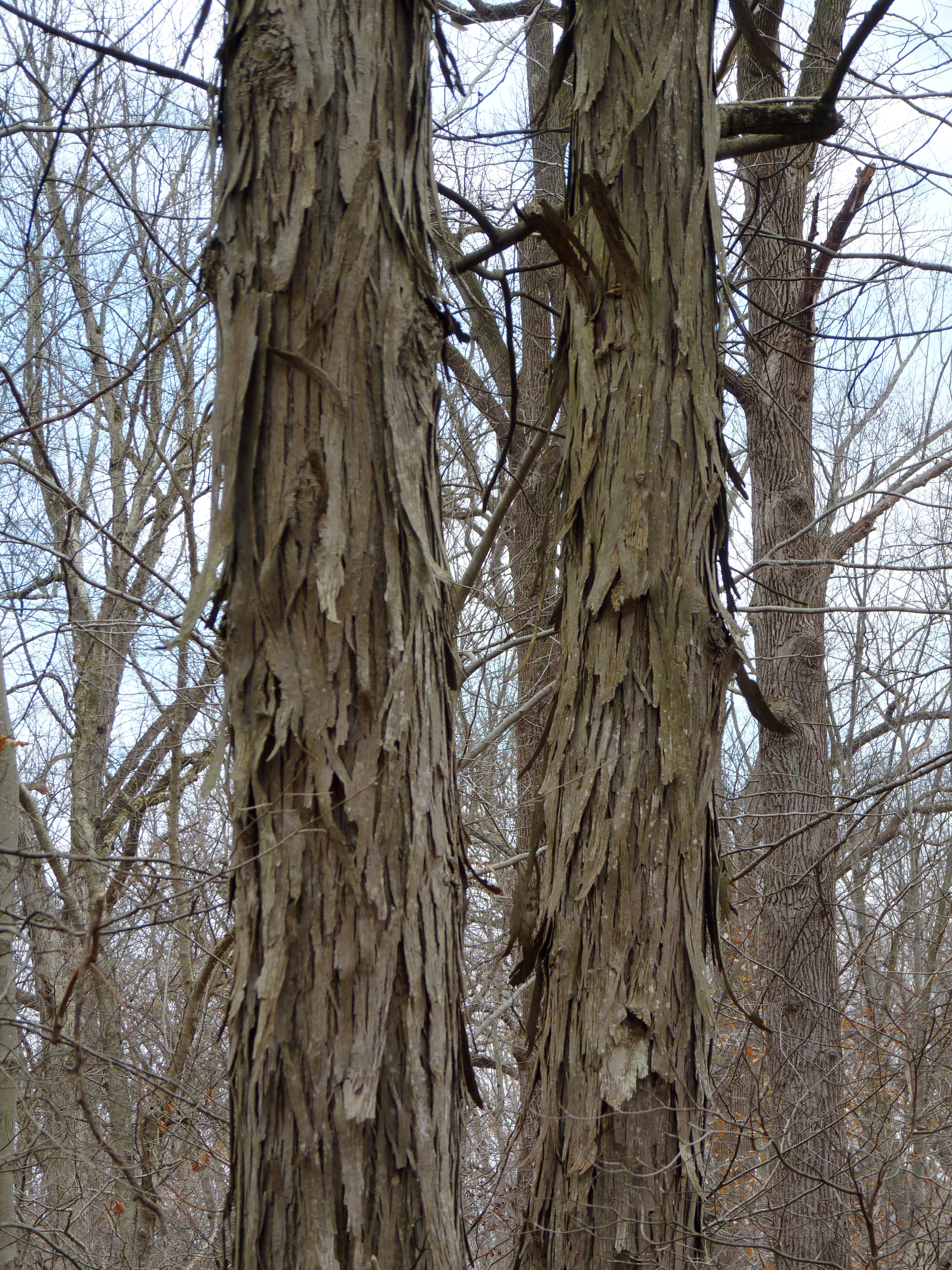 Shagbark Hickory Carya ovata, Van Dorans Mills, Basking Ridge, New Jersey